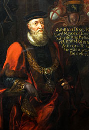 Portrait of Sir Wolstan Dixie painted 1593. Painting in the manner of John de Critz, late 16th century, of Sir Wolstone Dixey, Lord Mayor 1585/86 and CH President 1590 to 1593.